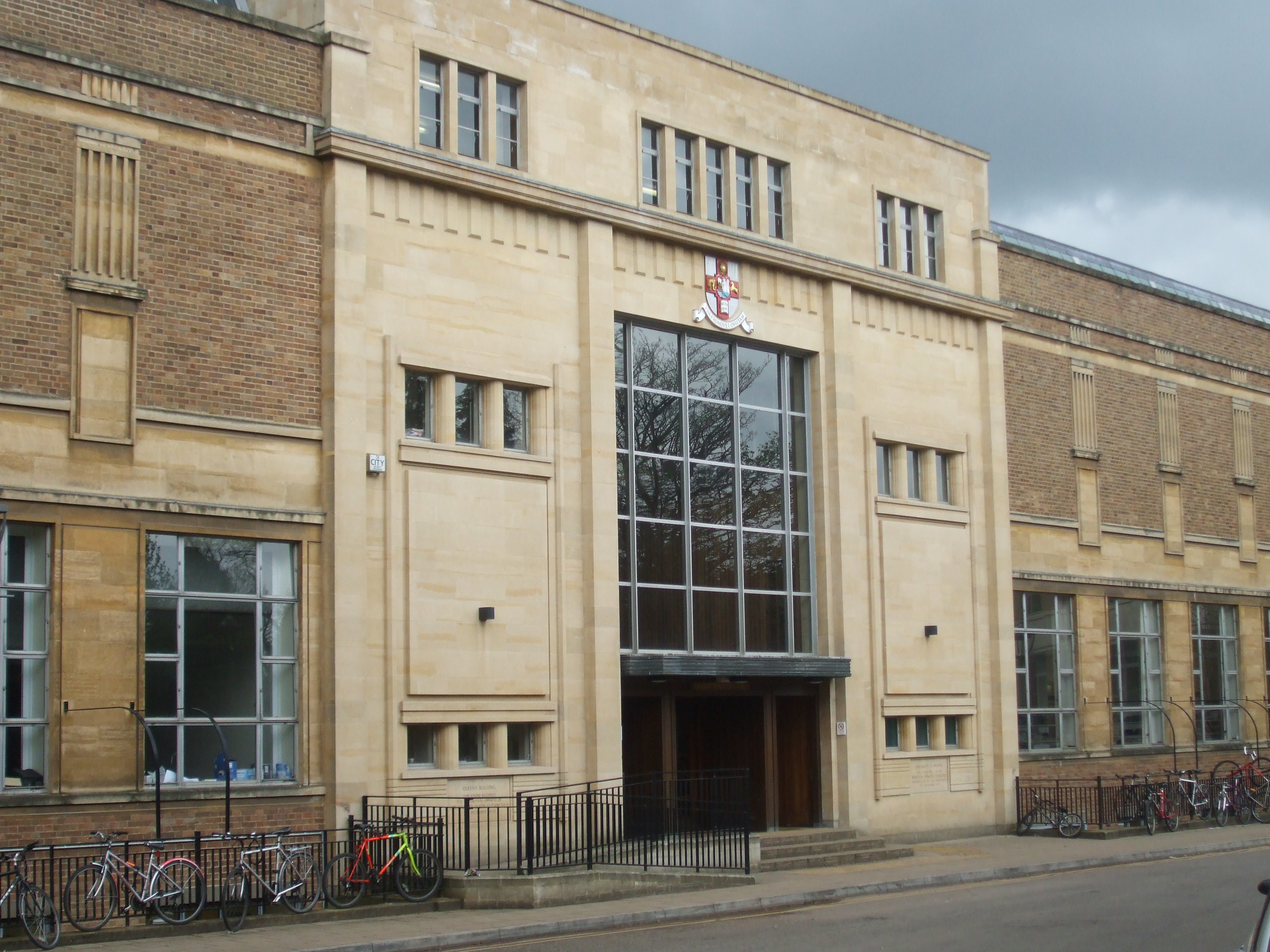 University of Bristol Engineering Department